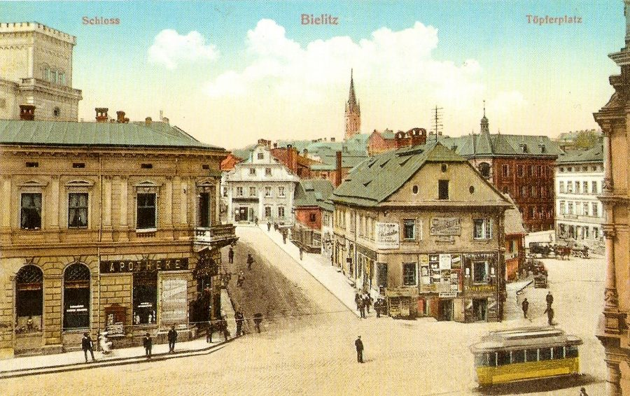 Töpferplatz, today Bolesław Chrobry Square, in Bielsko-Biała in 1916.